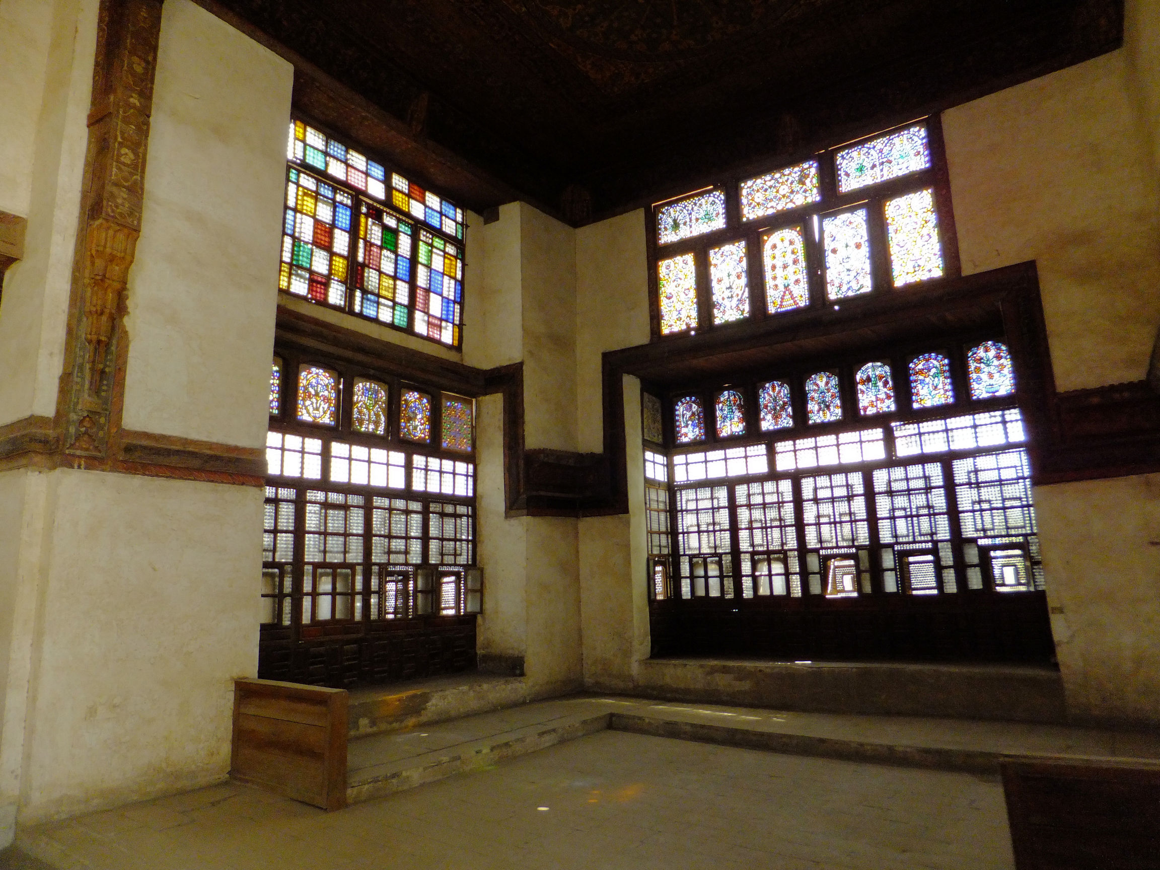 A room in the Bayt al-Razzaz palace with mashrabiyya windowscreens.